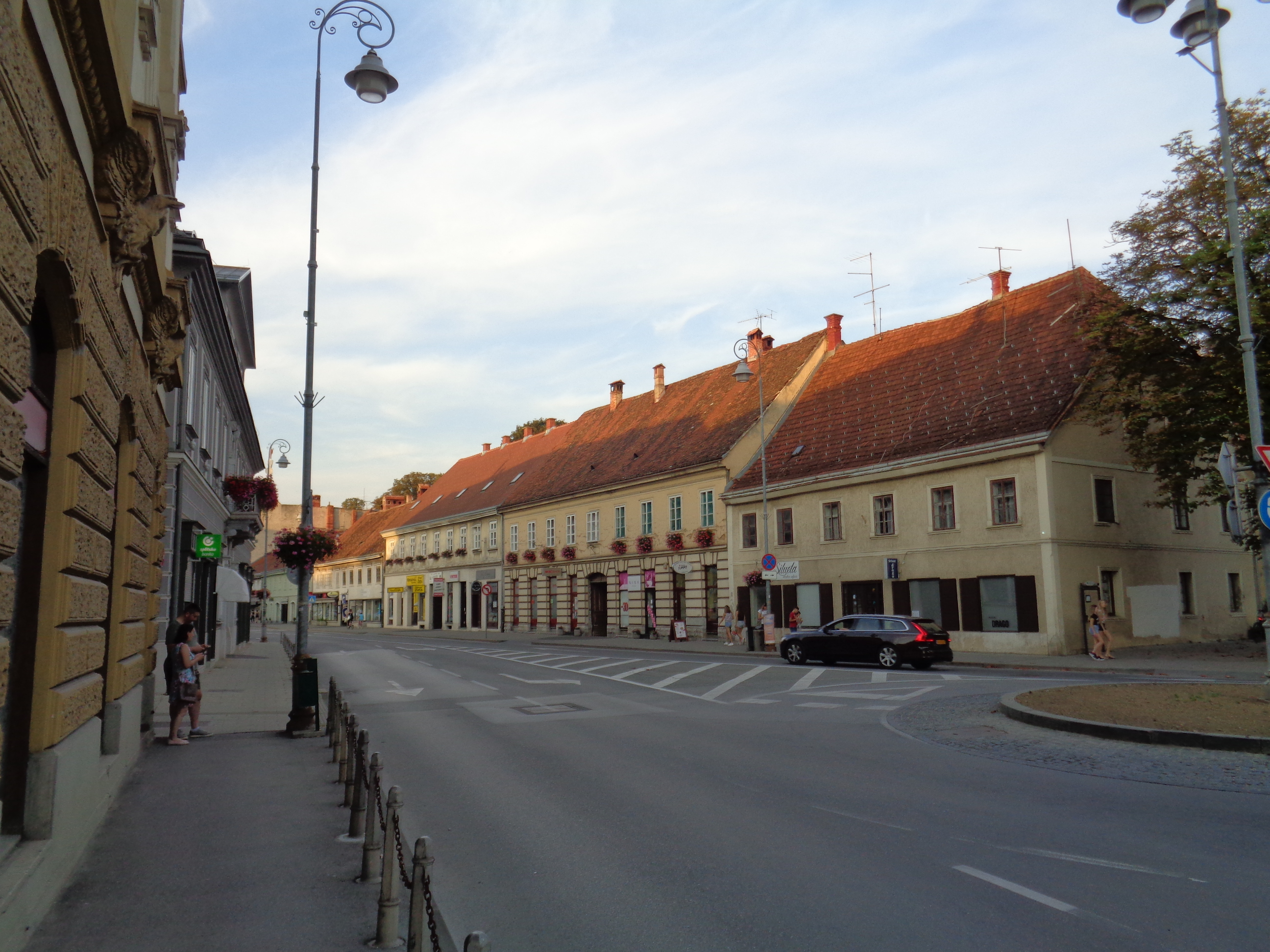 Karlovac, Croatia - street in the city centre at late afternoon